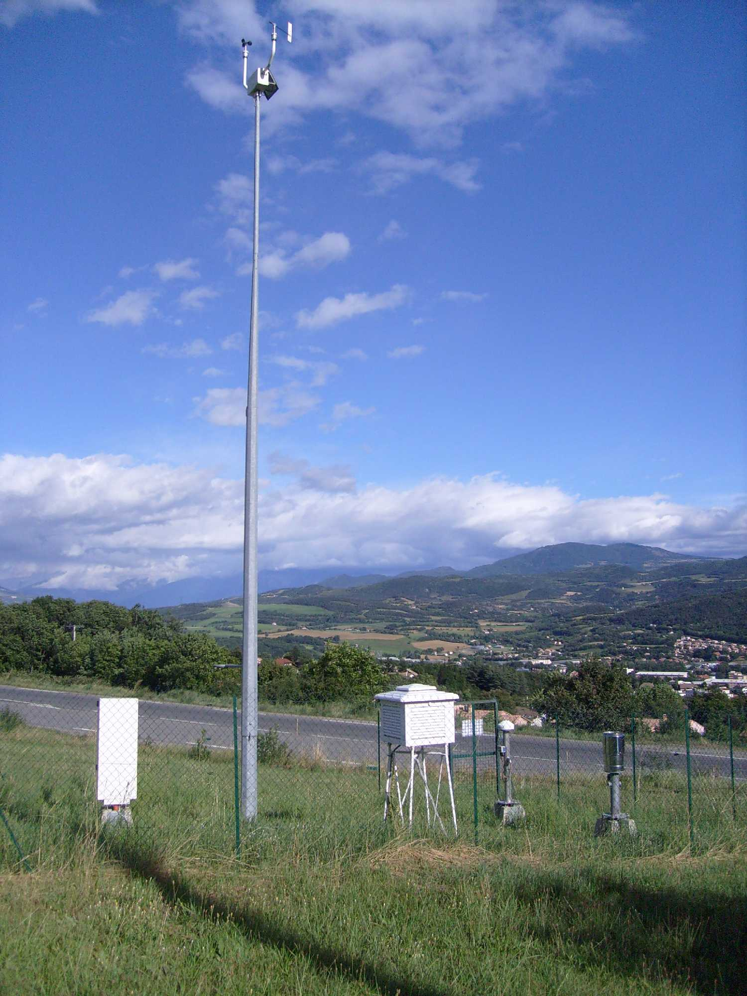 Gap-Varsie weather station, Gap( Hautes-Alpes, France).